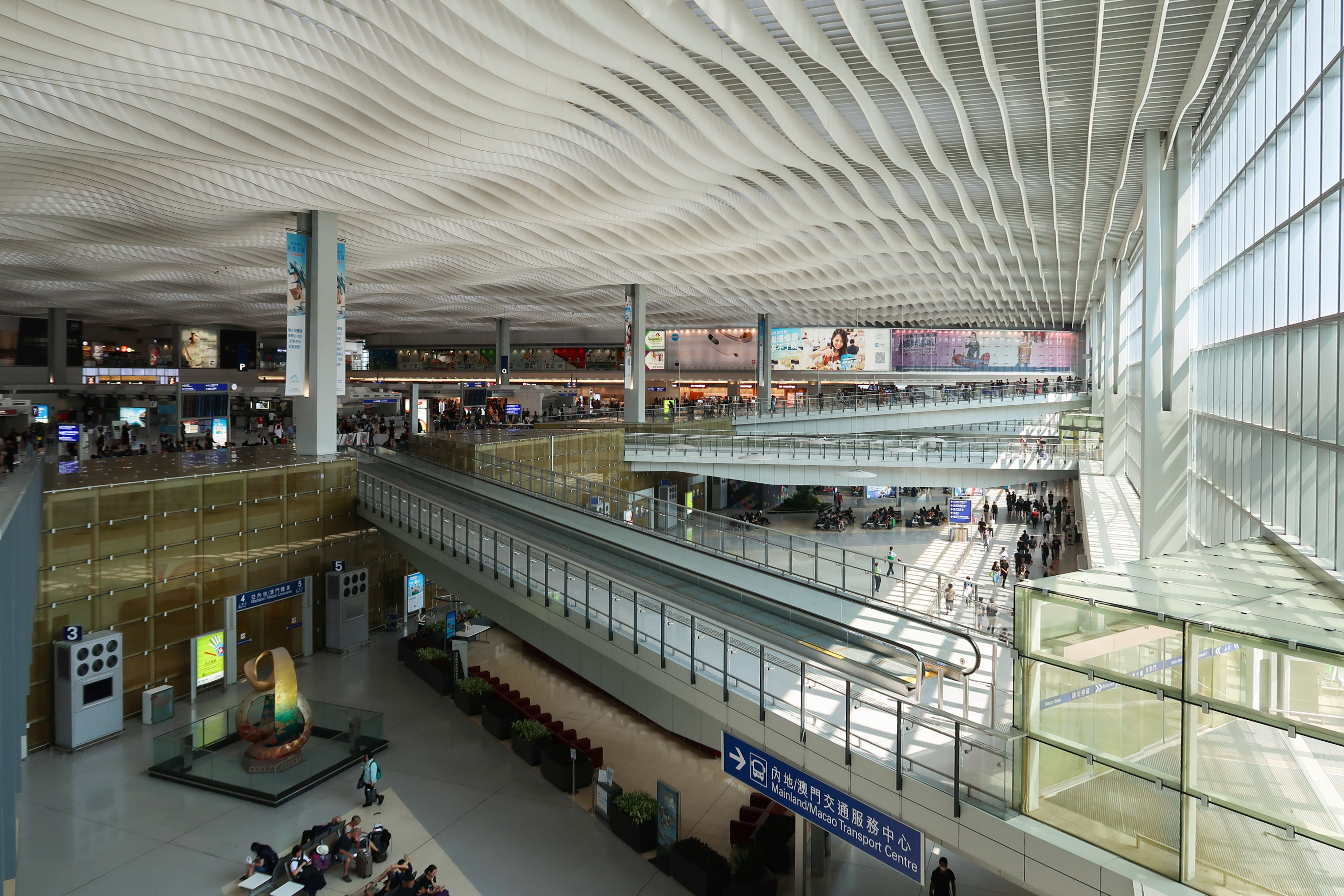 Hong Kong International Airport Terminal 2